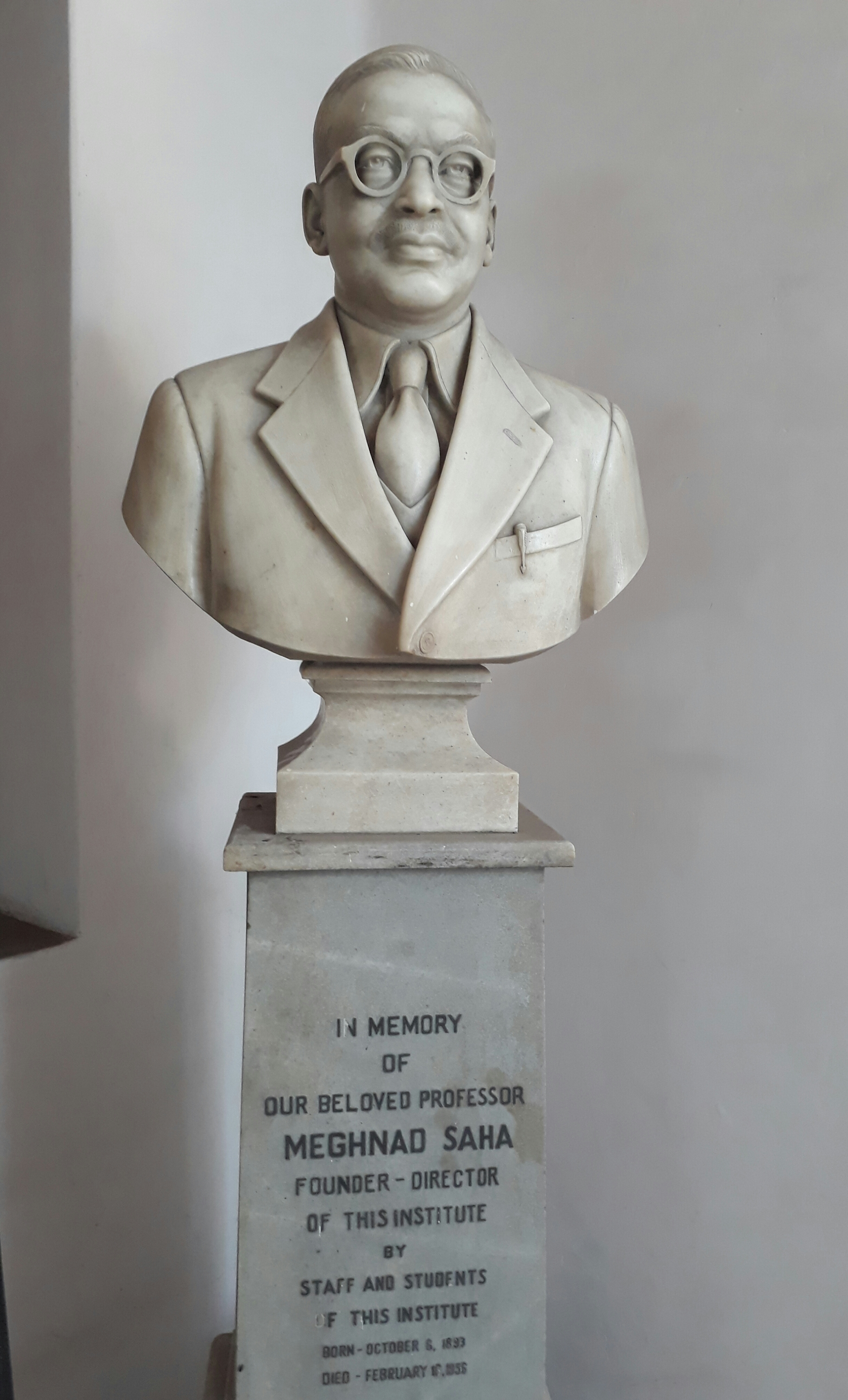 Statue of Meghnad Saha, Rajabajar Science College